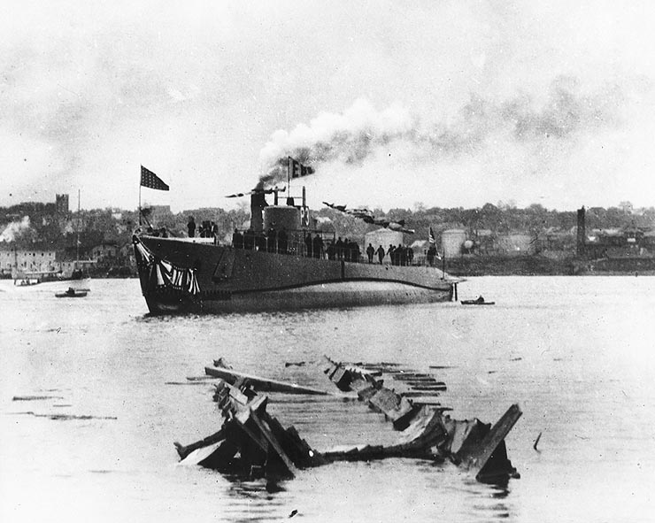 Removed caption read: Photo # NH 42075 USS Shark (SS-174) immediately after launching, 21 May 1935 USS Shark (SS-174) Immediately after launching by the Electric Boat Company, Groton, Connecticut, 21 May 1935. U.S. Naval Historical Center Photograph.